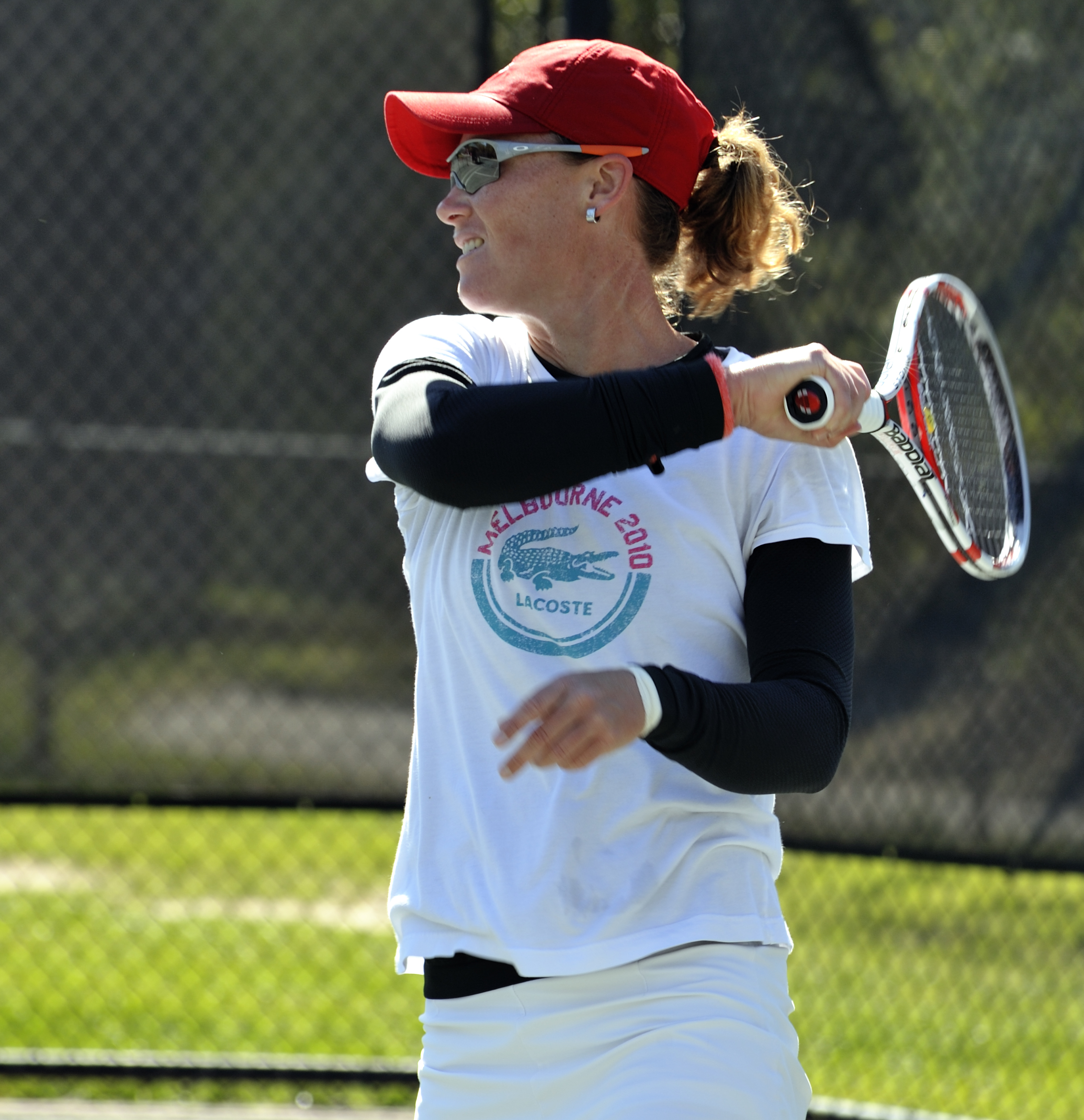 Pratice at the 2011 Family Circle Cup.